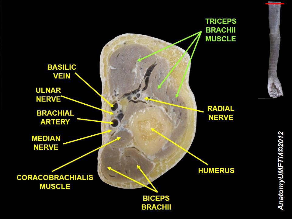 Anatomical dissections